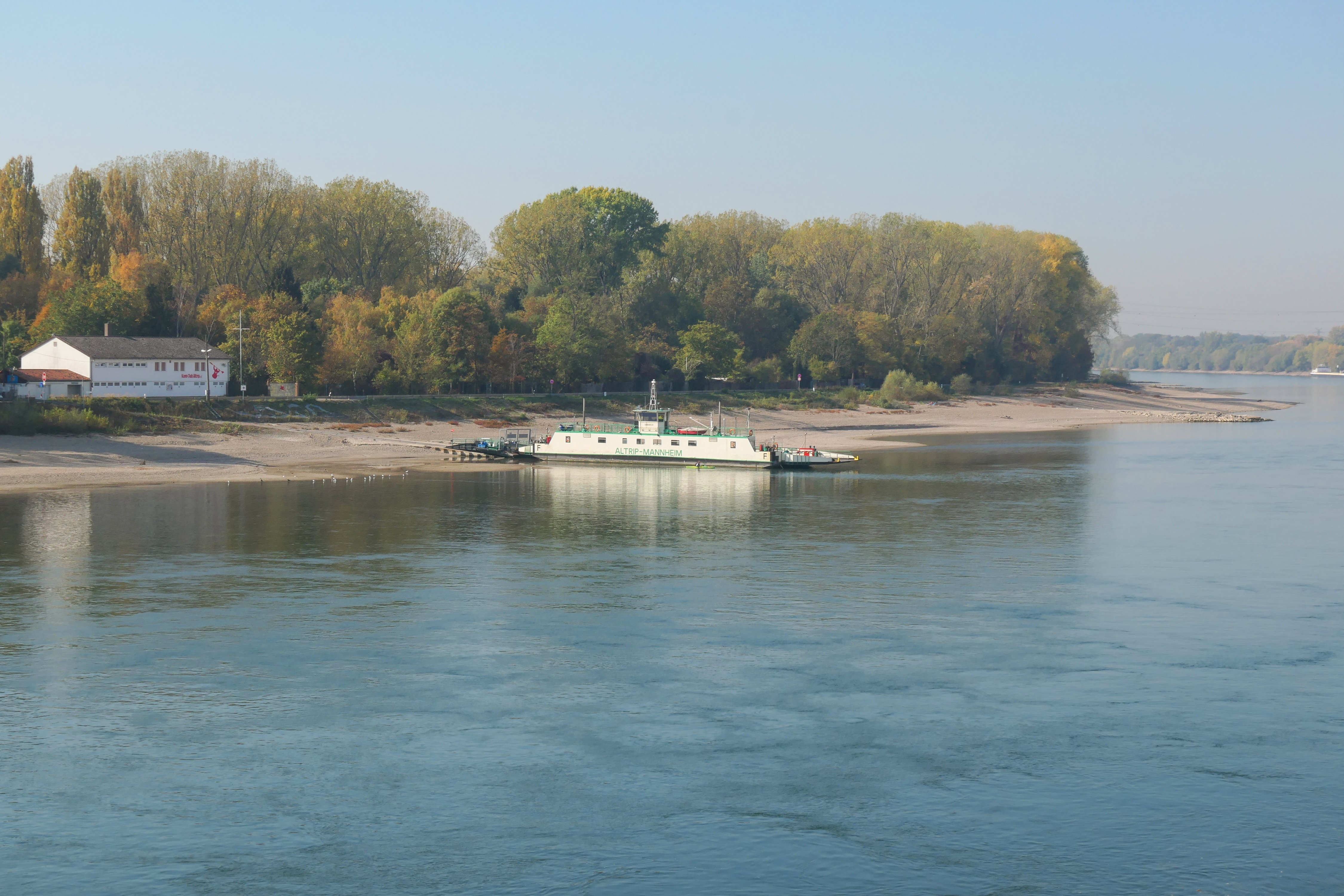 Rhine ferry Altrip-Mannheim, out of order because of low Rhine water level, Mannheim 106 cm